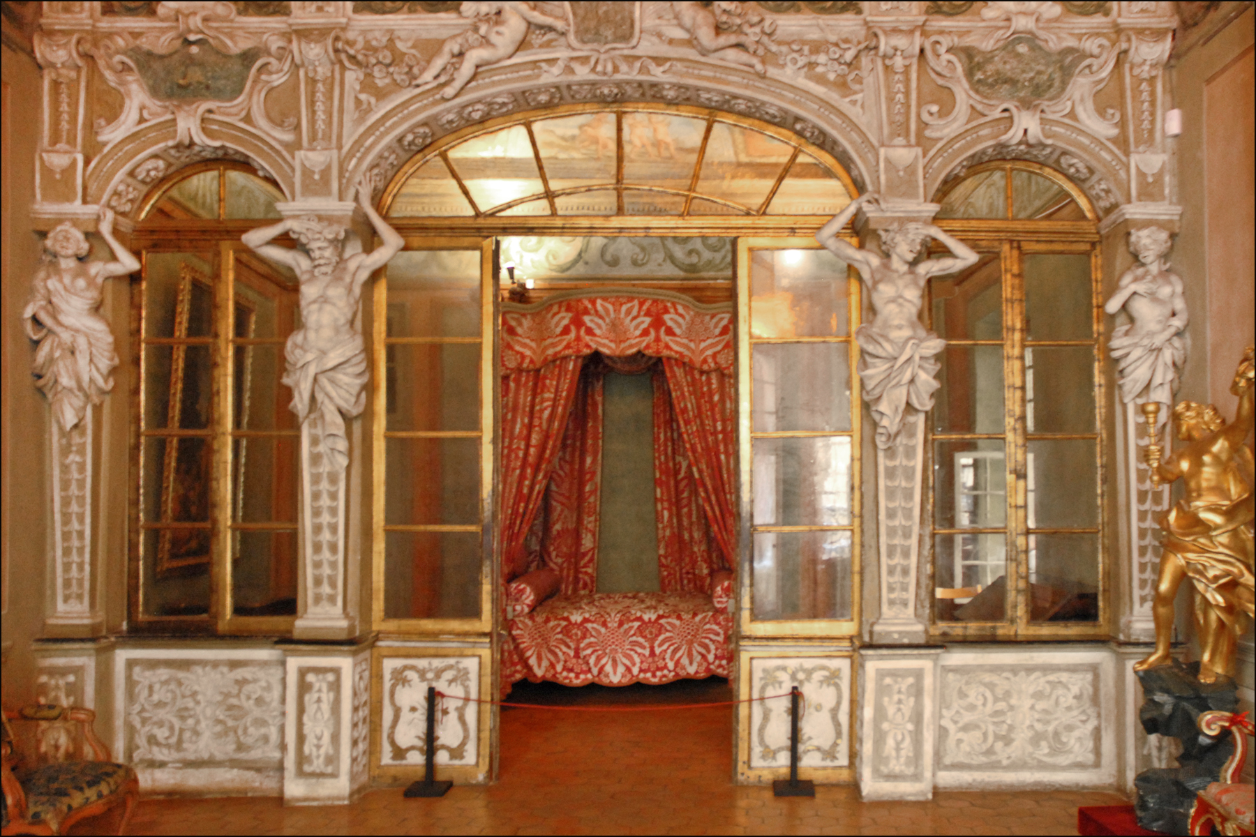 The "chambre d'apparat" (formal room) at palais Lascaris in Nice, France.